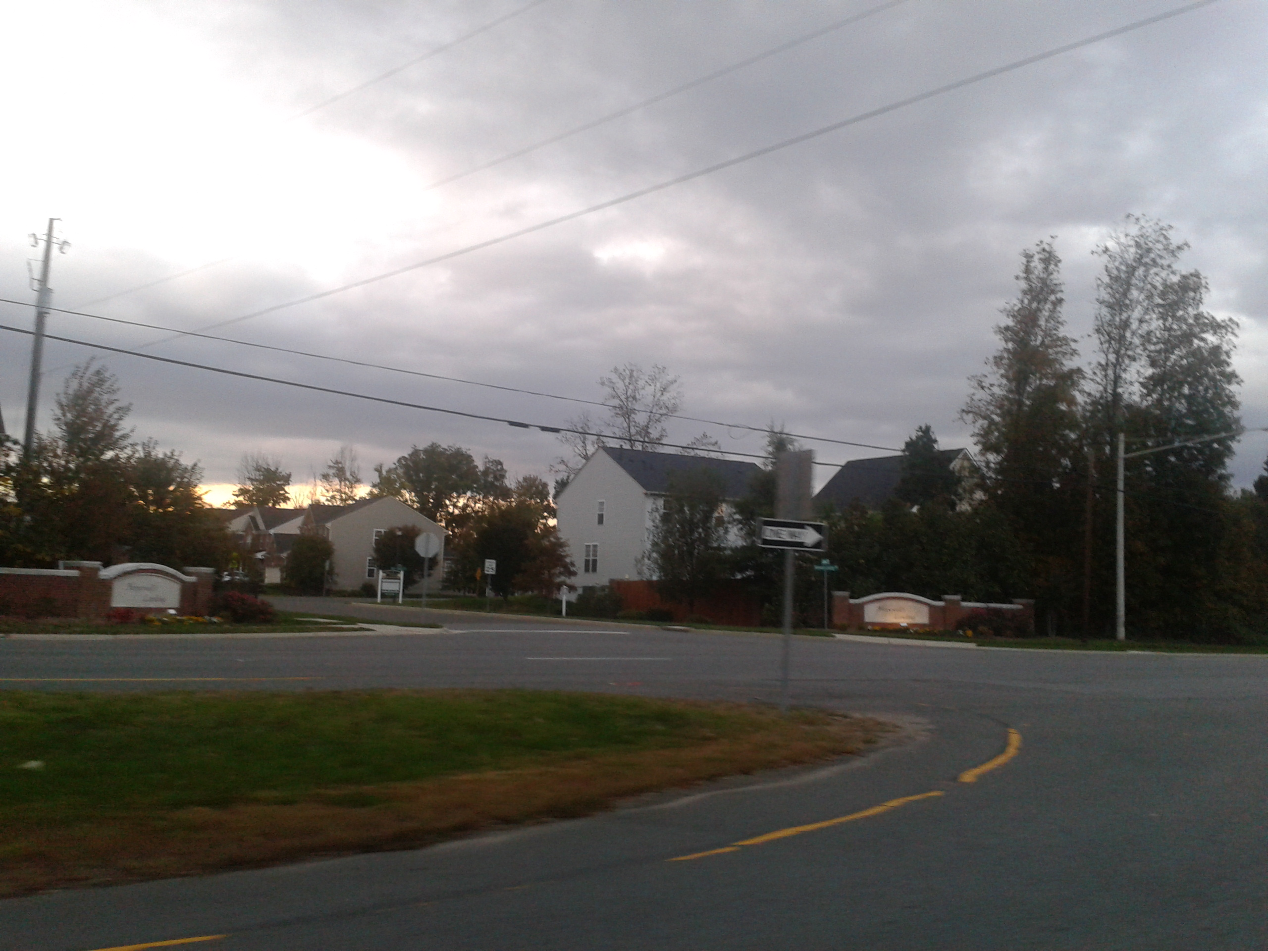 Houses in Gainesville, Virginia